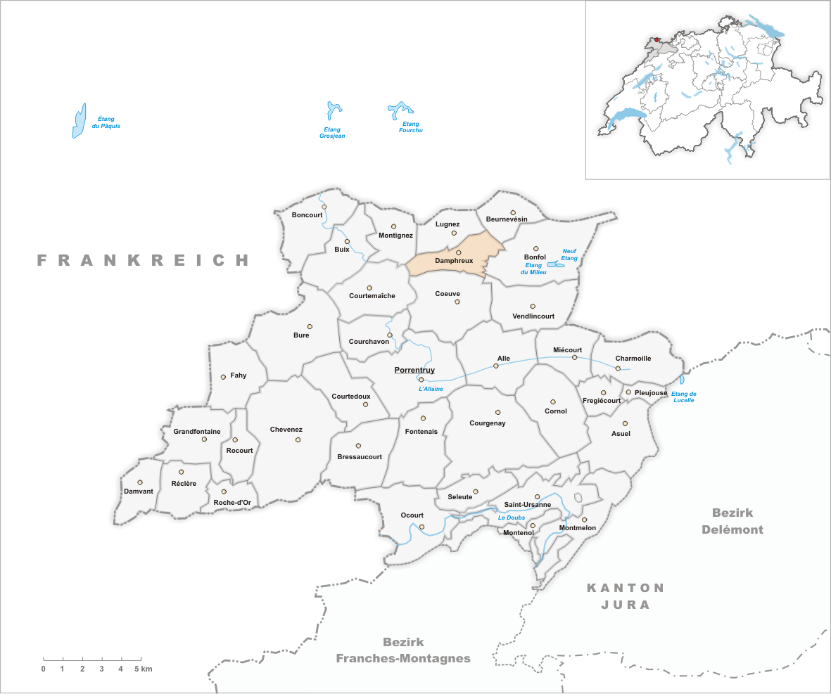 Municipality Damphreux Artist: Tschubby